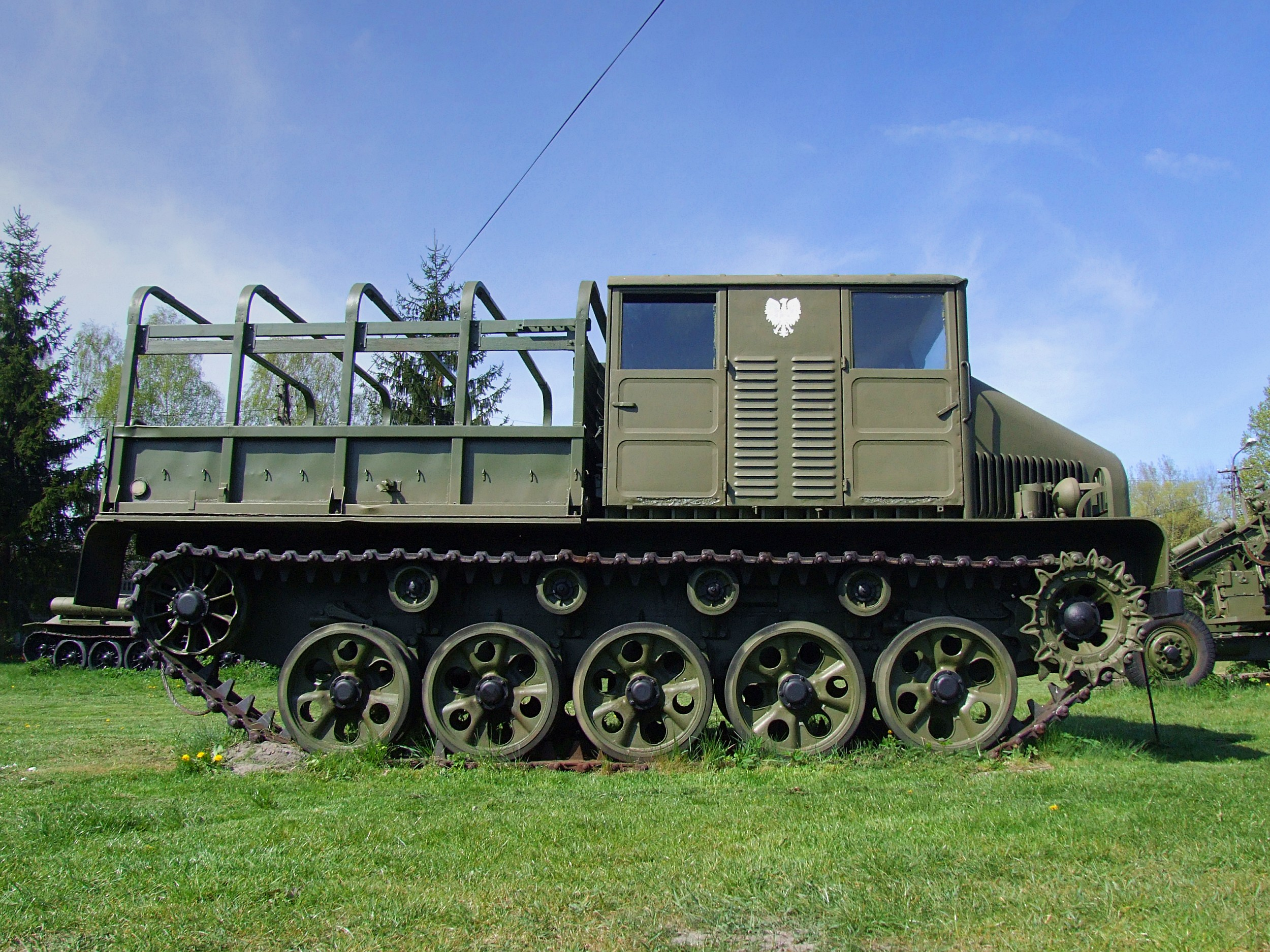 This picture was taken in The White Eagle Museum in Skarżysko-Kamienna